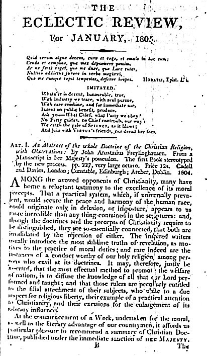 First page of the first issue of The Eclectic Review, published in January 1805